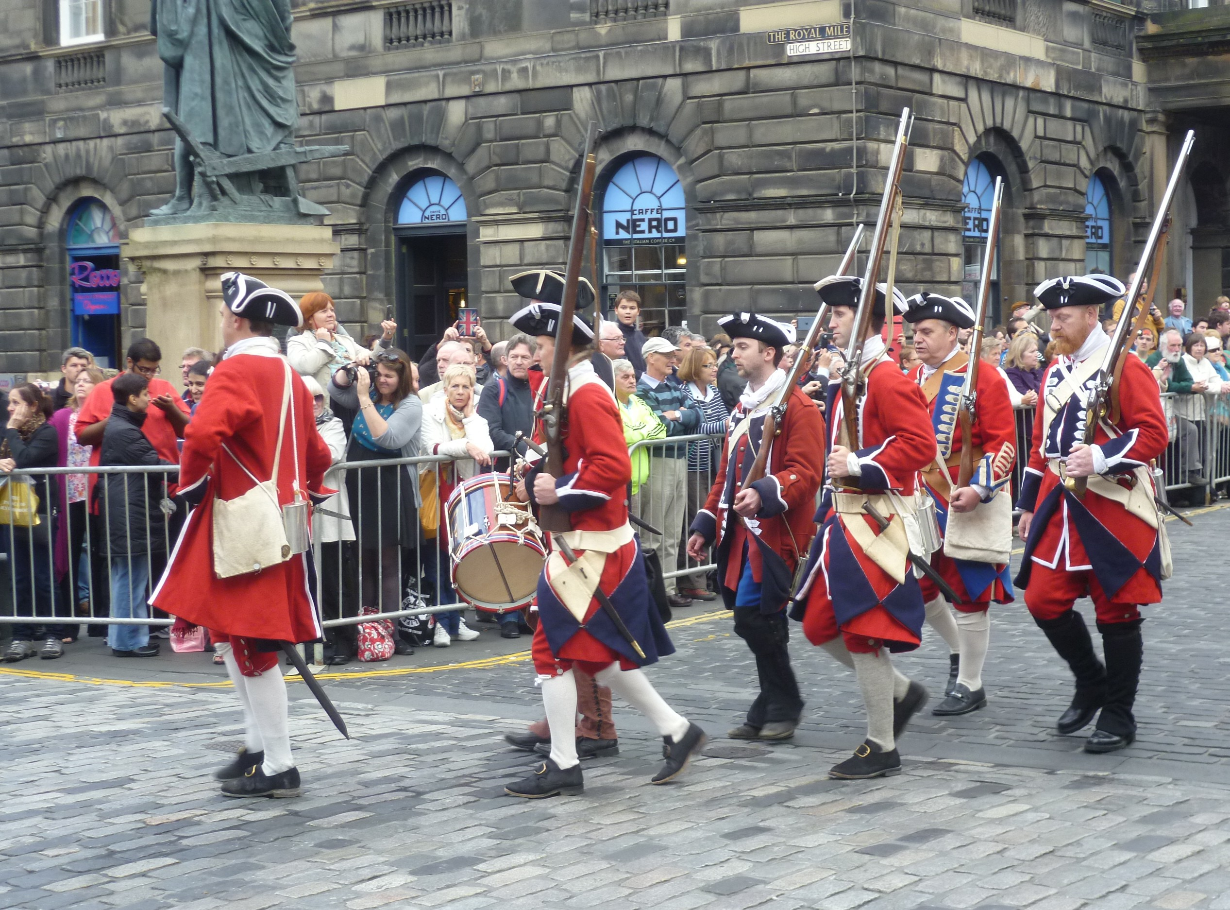 Edinburgh Town Guard re-enactors, 2013